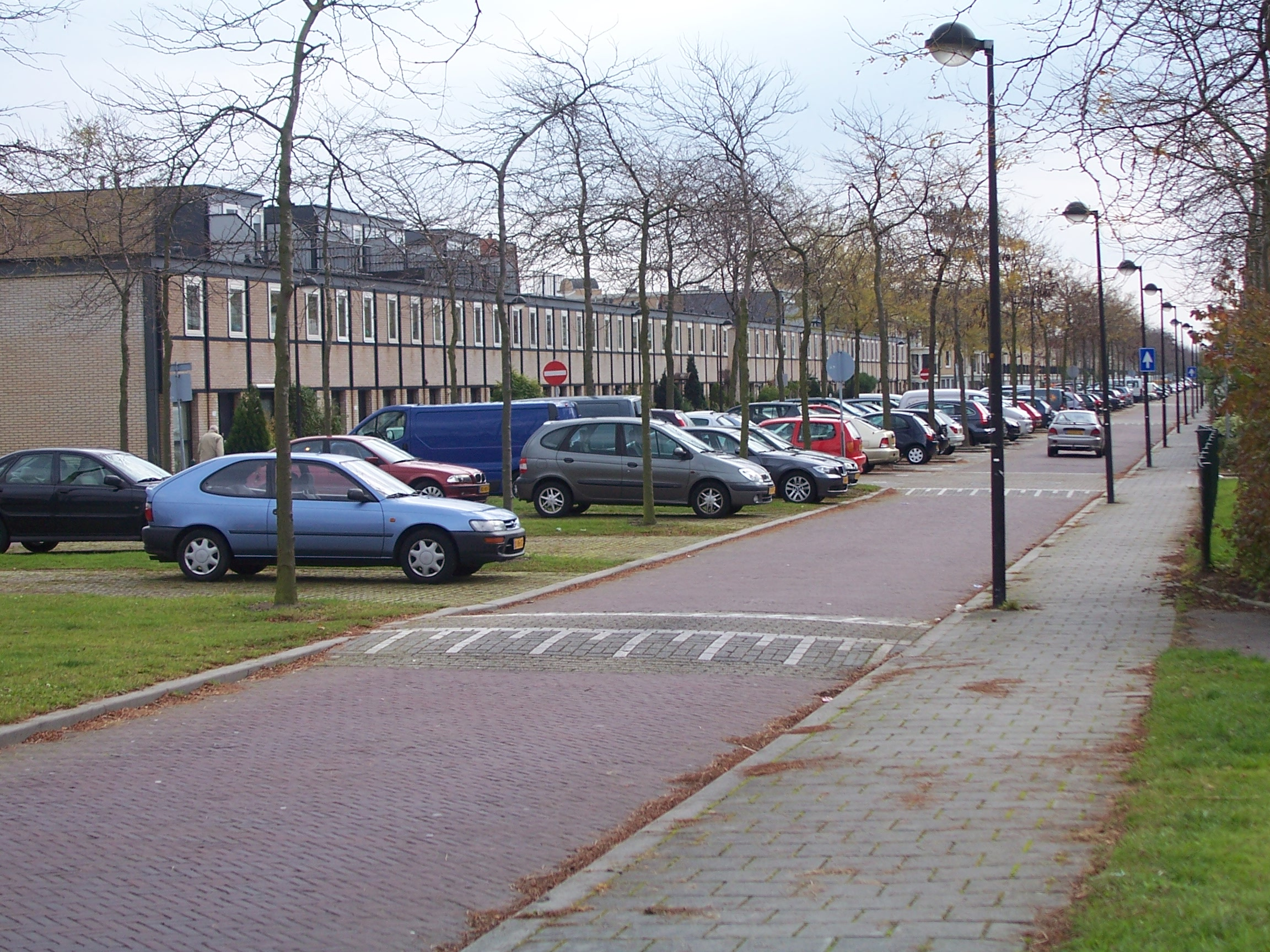 De Strijp, part of Rijswijk, The Netherlands NB also uploaded at by the same person, me (the author)